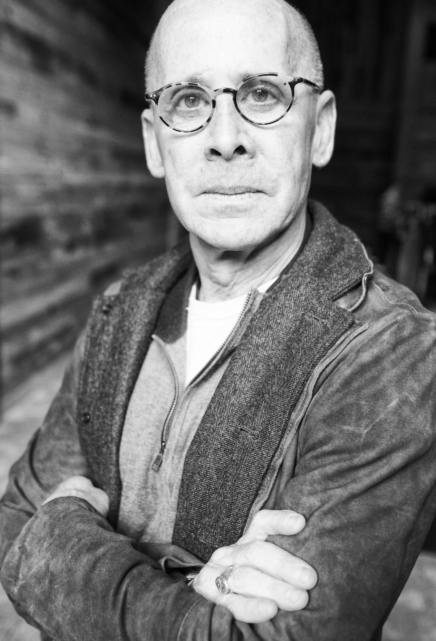 Bob Luskin